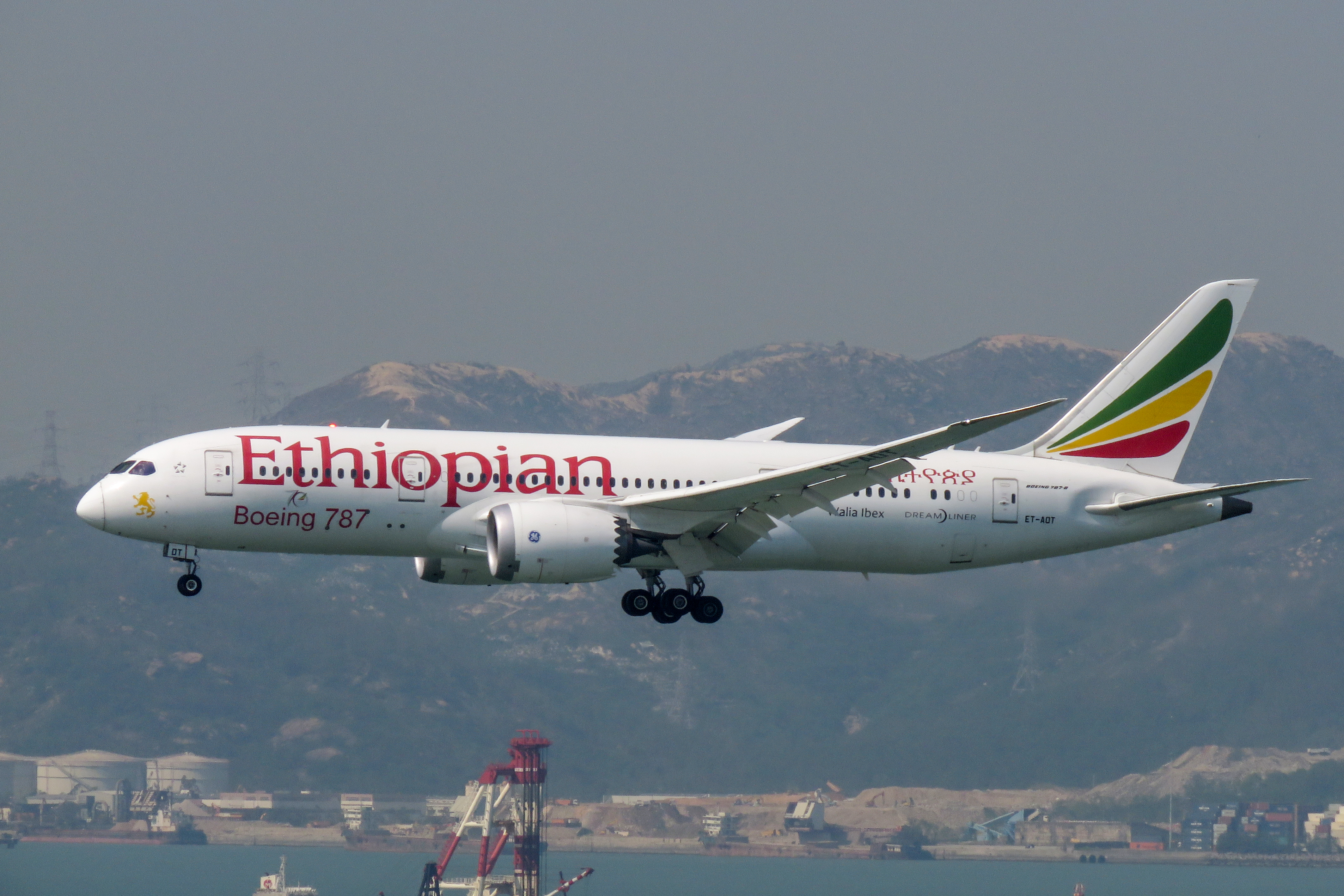 Ethiopian 644 from Addis Ababa. Later it turned out that this flight has a second leg to Manila!